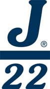 J/22 logo.